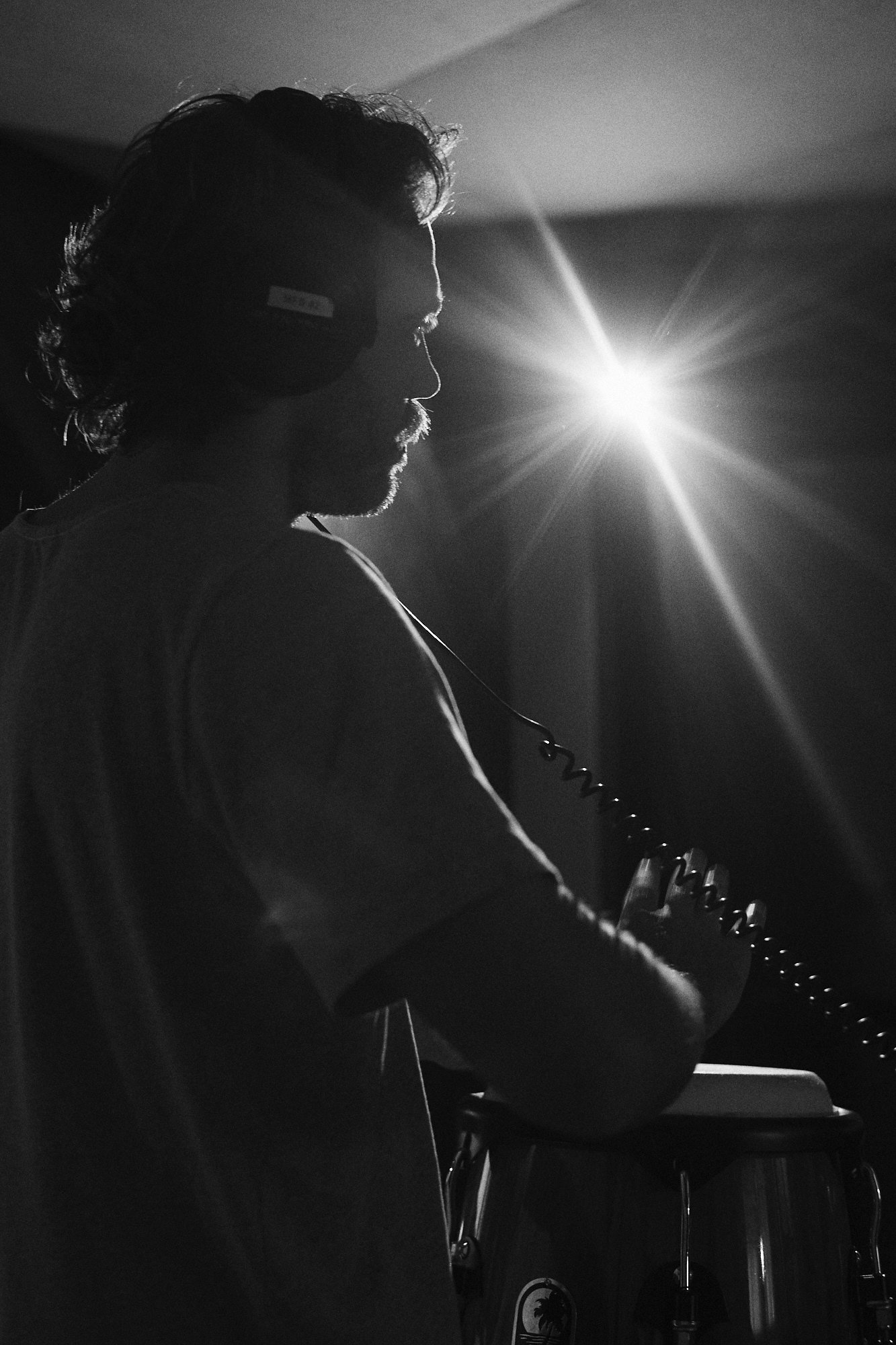 Matt Corby in the studio.